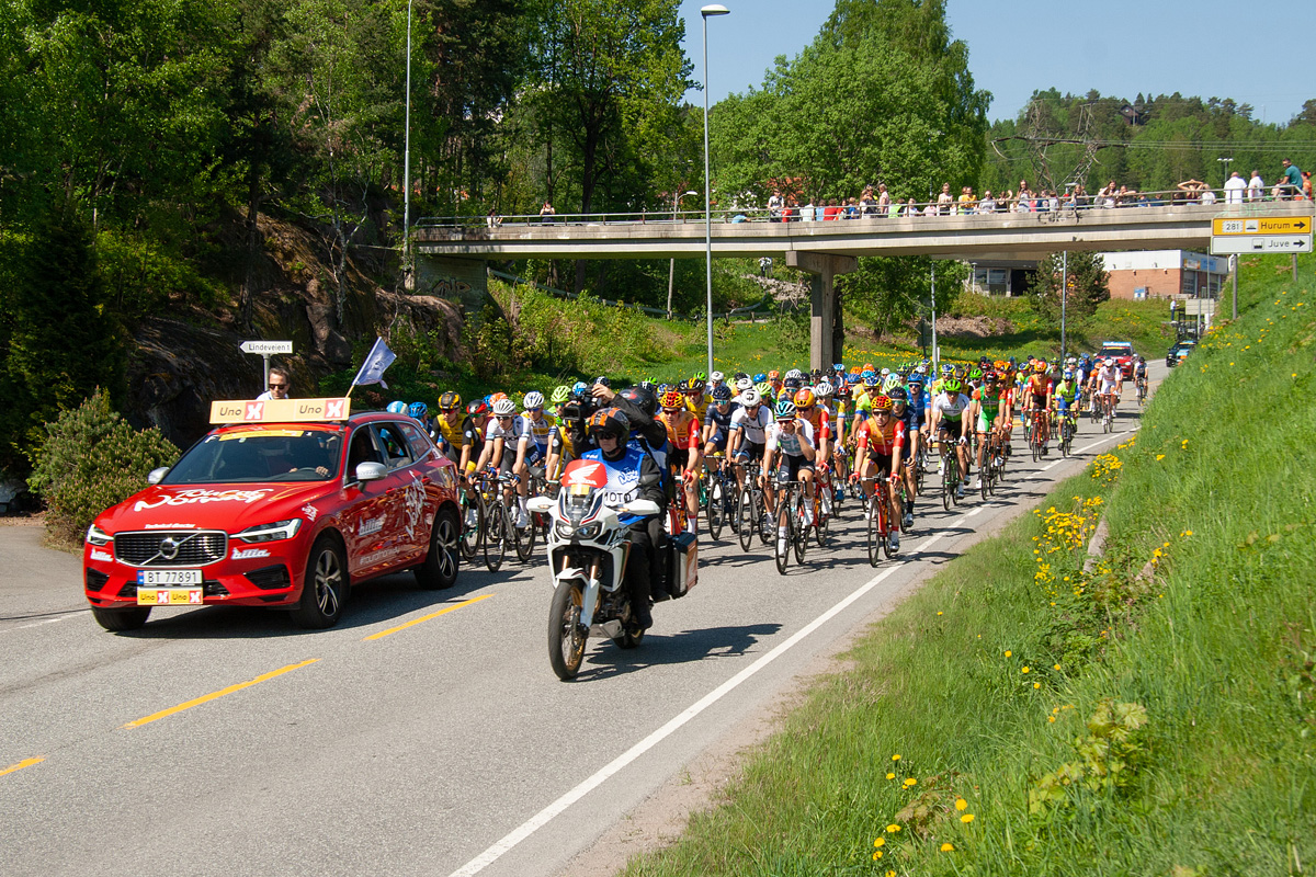 Stage 1 of Tour of Norway 2018 started in Svelvik. The picture is taken 3 km after the ceremonial start, when the peloton passed through Svelvik again on the main road.